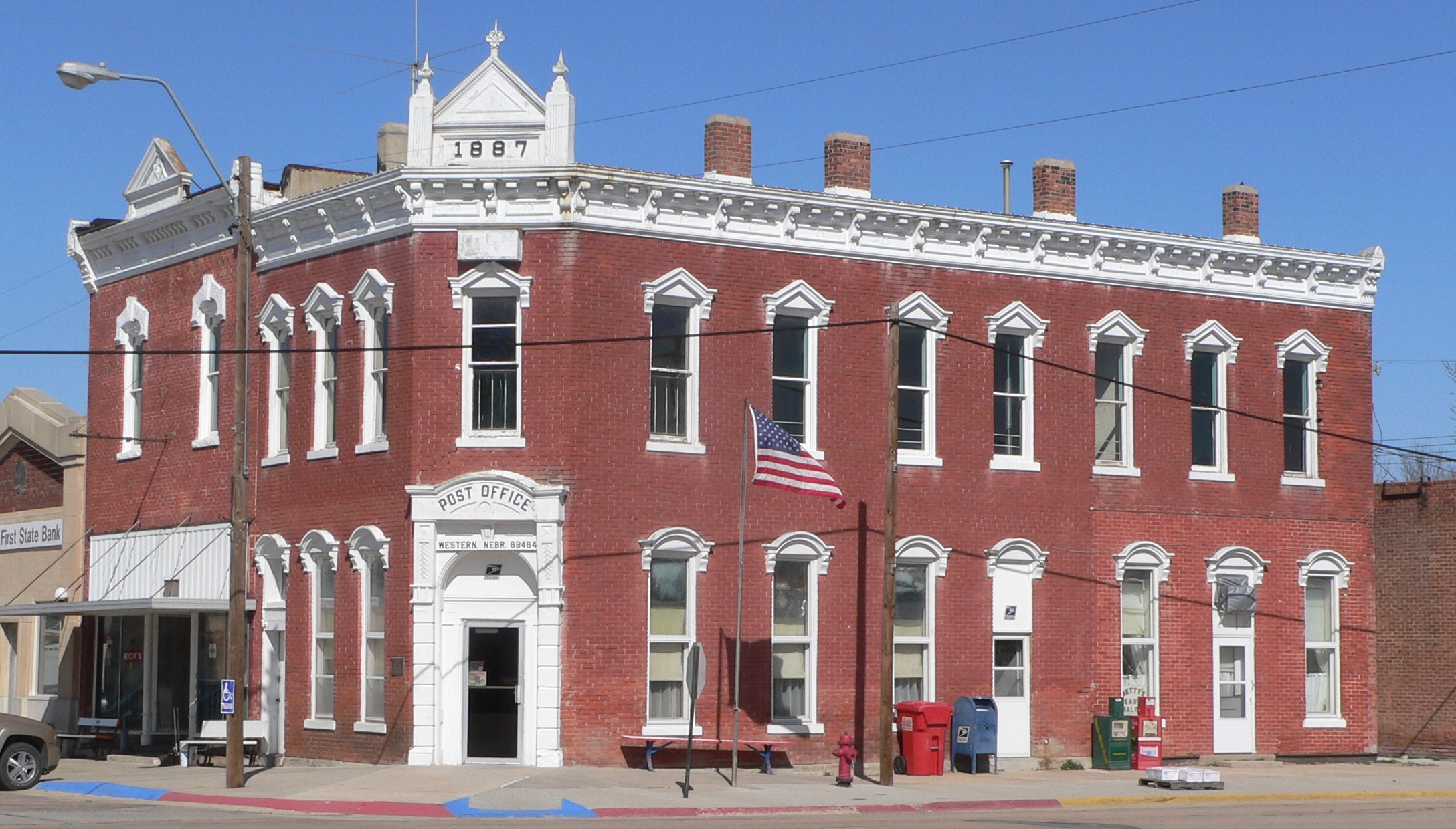 Post office, located at northeast corner of Sumner Street and West Avenue in Western, Nebraska. The building is the former Saline County Bank. View is from the southwest.